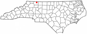 Category:North Carolina Dot Maps